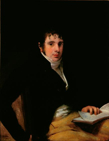 João José Xavier do Carvalhal Esmeraldo e Vasconcelos de Atouguia de Bettencourt de Sá Machado (1778-1837), 1st Count of Carvalhal.